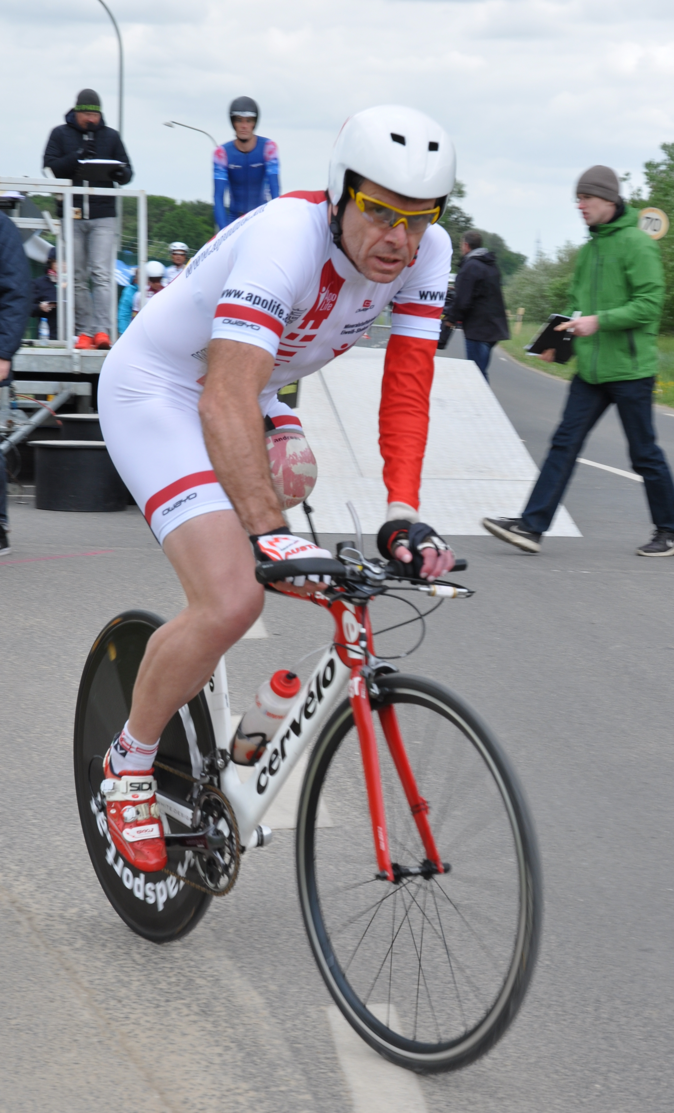 Andreas Zirkl, Austrian para-cyclist